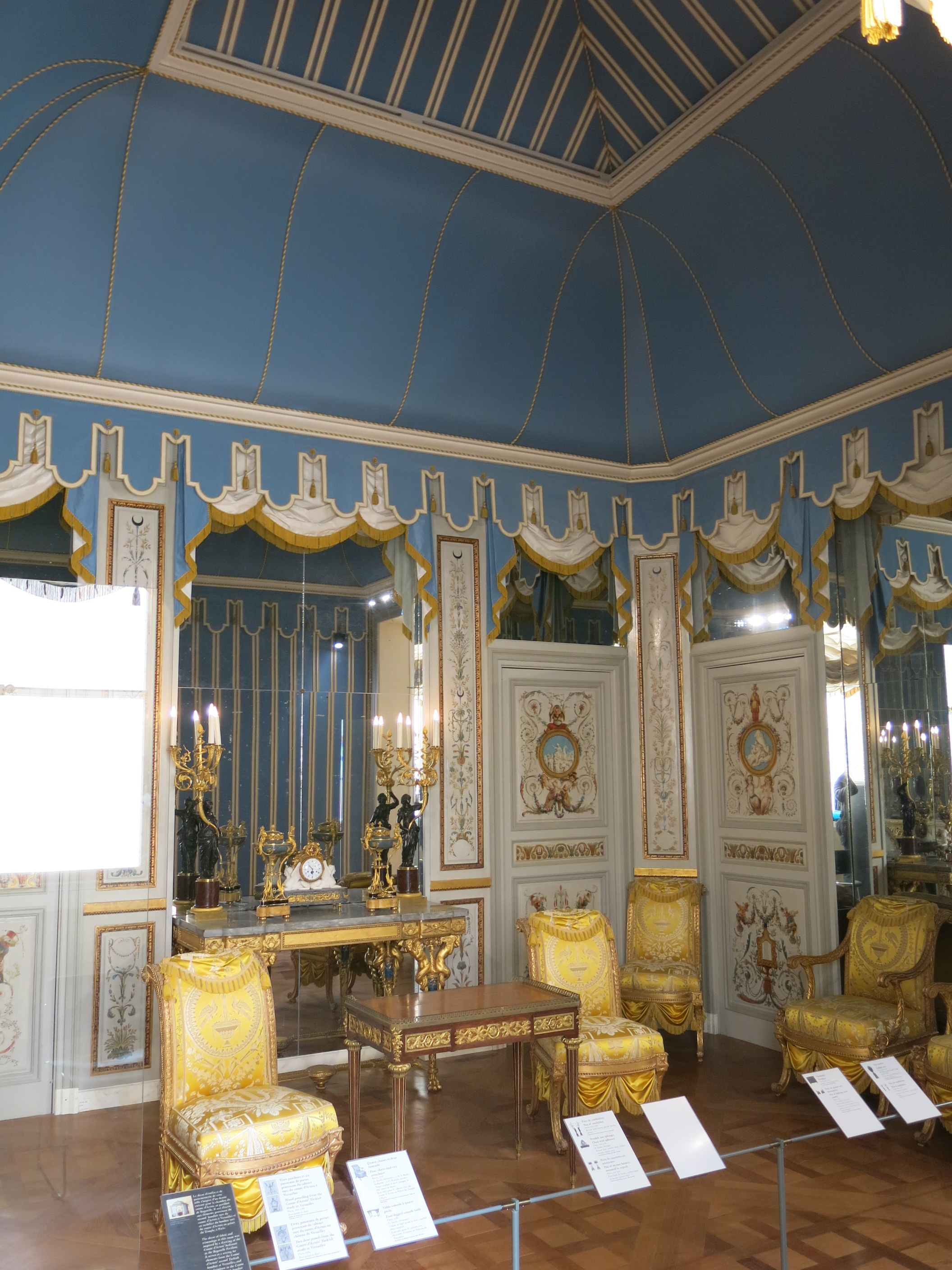 Overview of the turkish cabinet. Louvre museum (Paris, France).